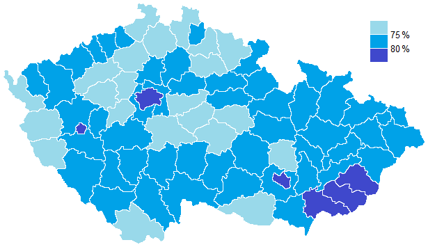 The vote for the Czech Republic's entry into the European Union in a referendum in 2003